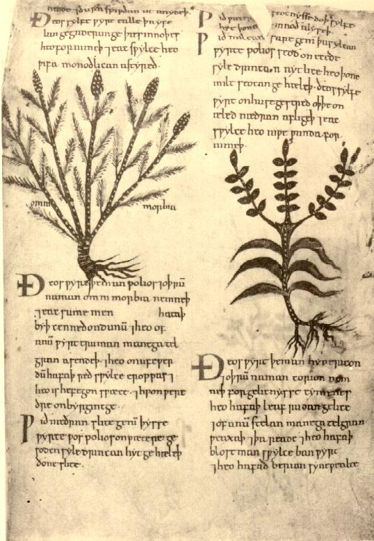 Photograph of a page from the Herbarium Apulei, an Old English herbarium found in the manuscript London, British Library, Cotton Vitellius C.iii